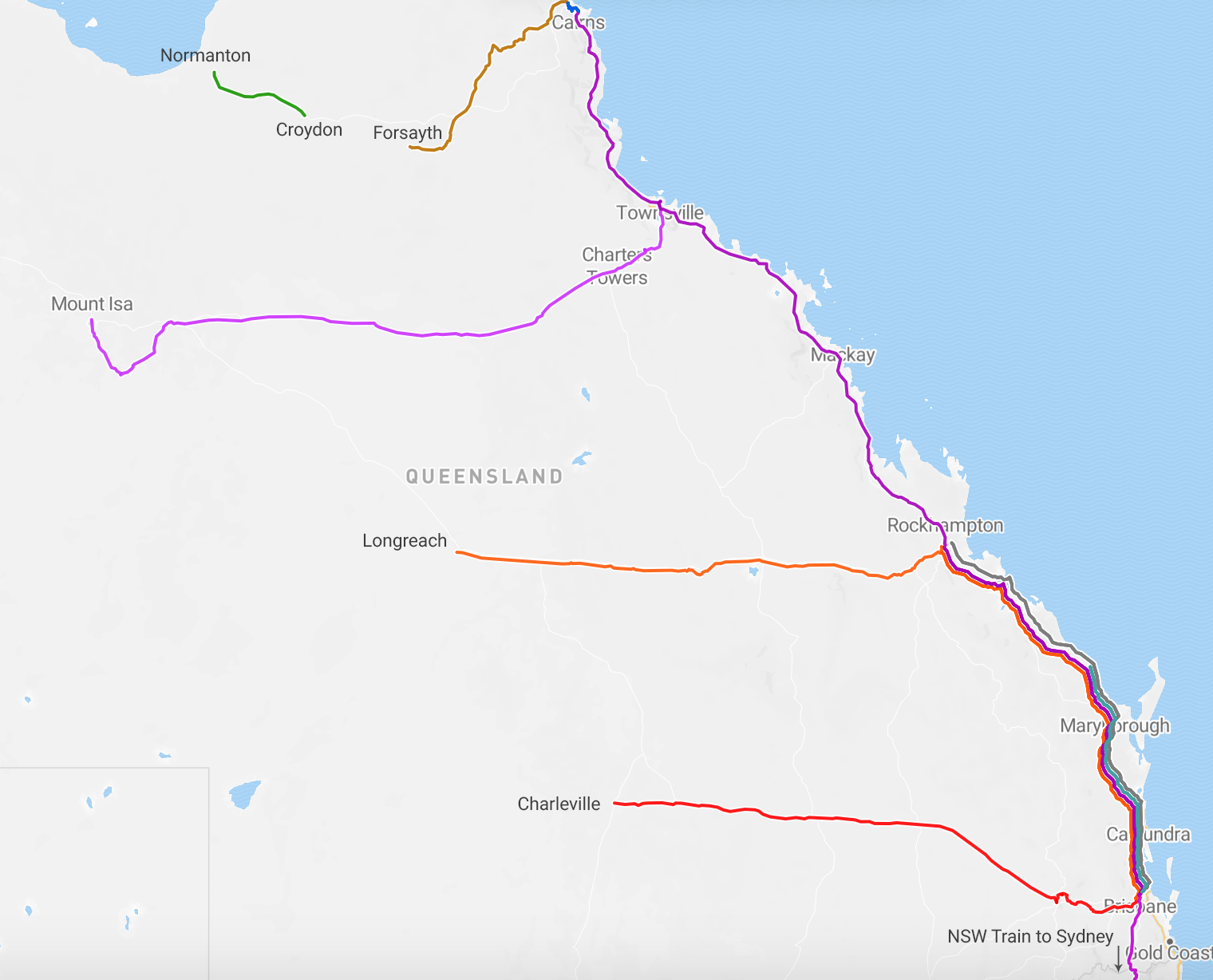 Passenger trains in Queensland Australia